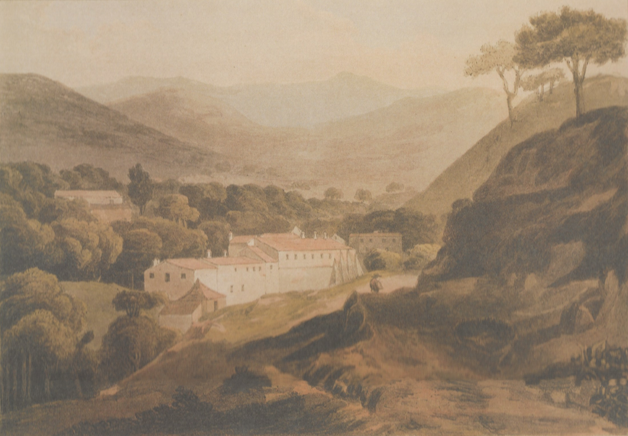 Drawing of the Monchique Spa, in Portugal, painted by George Thomas Landmann (1779 – 1854), and published by J. Hill in 1813.